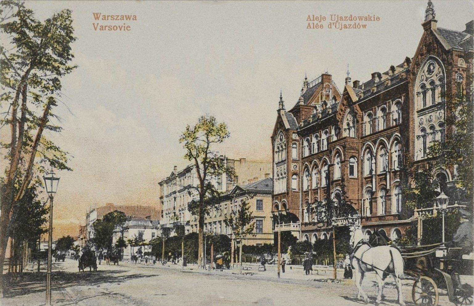 Ujazdowskie Avenue in Warsaw